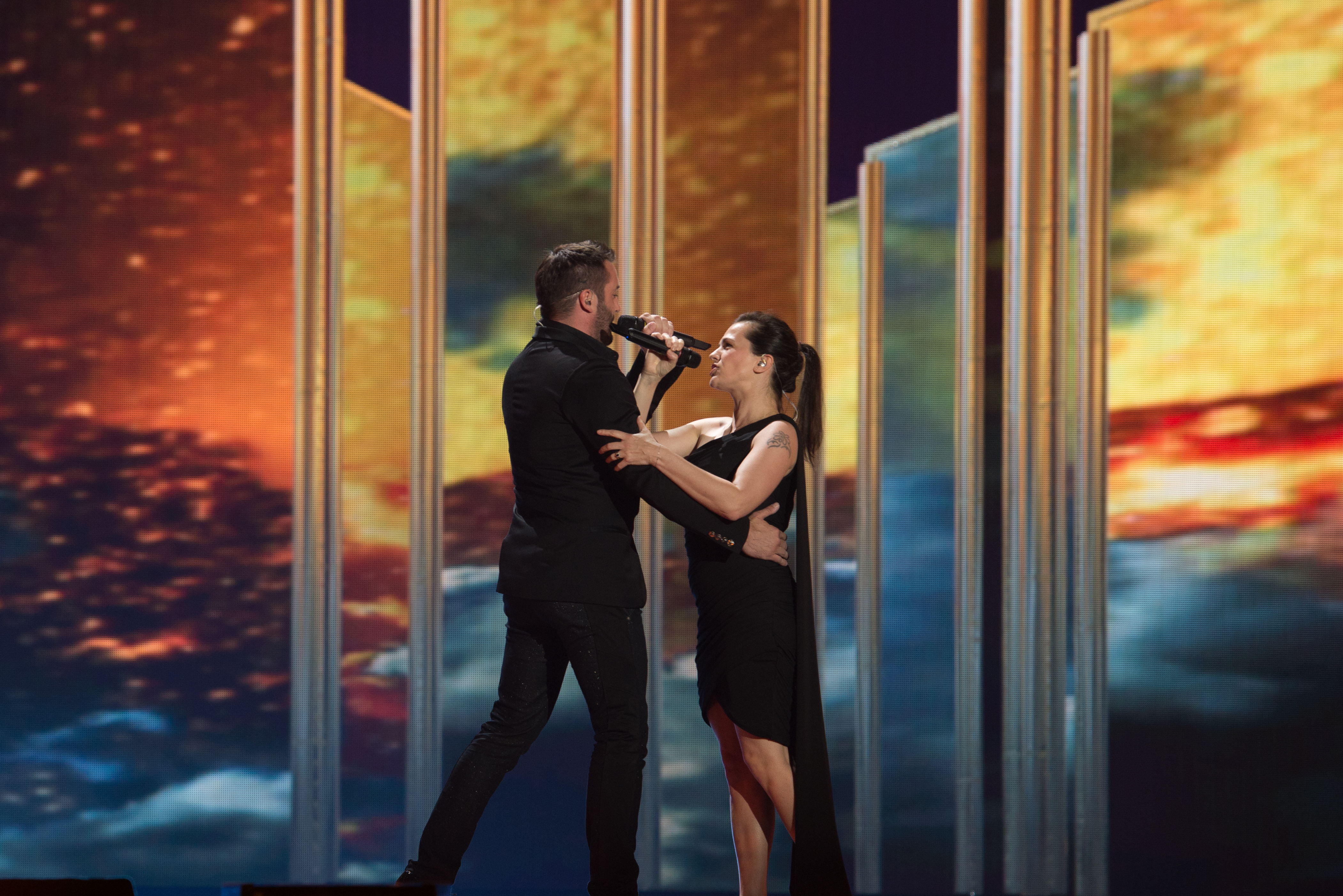 Eurovision Song Contest Vienna 2015: Marta Jandová & Václav Noid Bárta